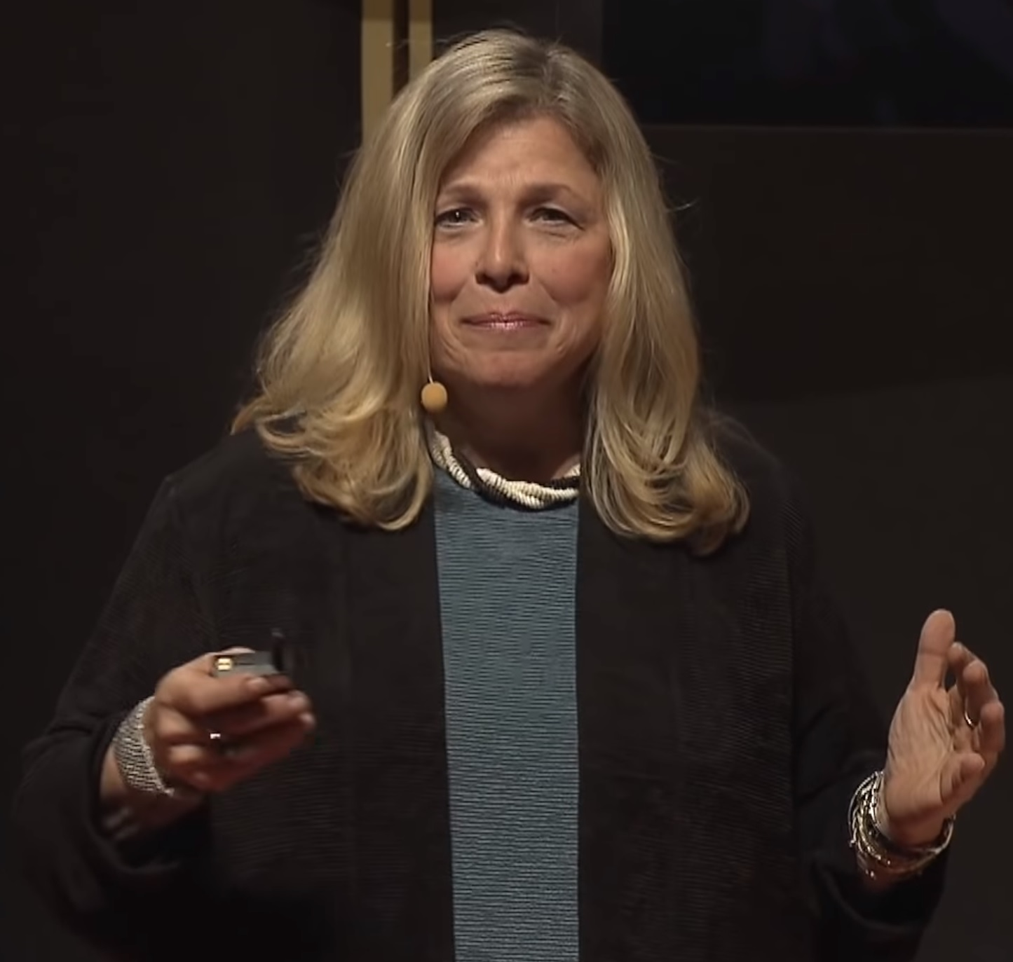 Author, professor of sociology, researcher and ambassador of love and relationships for AARP, Pepper Schwartz shares what's up and coming later in life. In the spirit of ideas worth spreading, TEDx is a program of local, self-organized events that bring people together to share a TED-like experience. At a TEDx event, TEDTalks video and live speakers combine to spark deep discussion and connection in a small group. These local, self-organized events are branded TEDx, where x = independently organized TED event. The TED Conference provides general guidance for the TEDx program, but individual TEDx events are self-organized.* (*Subject to certain rules and regulations)